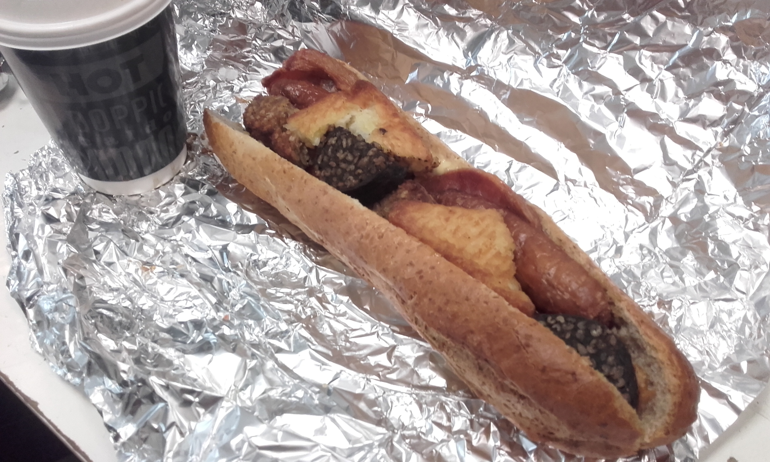 Irish Breakfast Roll